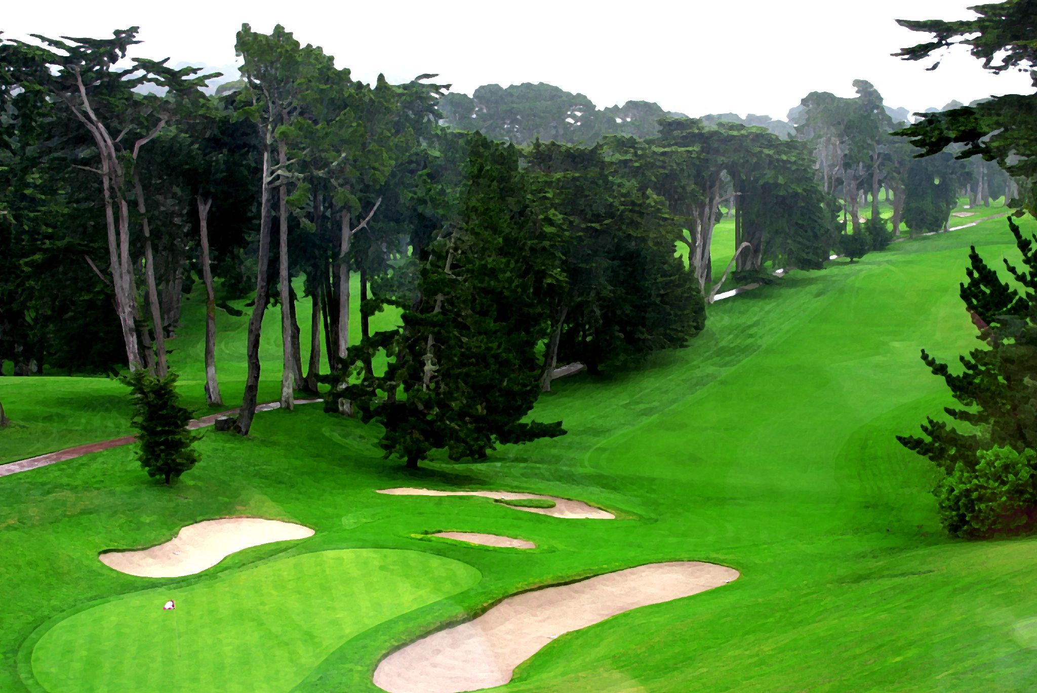 18th hole, Olympic Club (Lakeside), near Lake Merced, southwestern San Francisco, CA, USA.